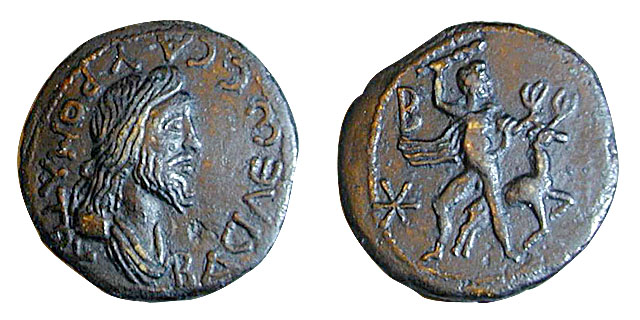 Kingdom of Bosporus (Crimea and environs): bronze coin of Sauromates II, c. 172-211 AD. Compare with Sear# 5478-81.